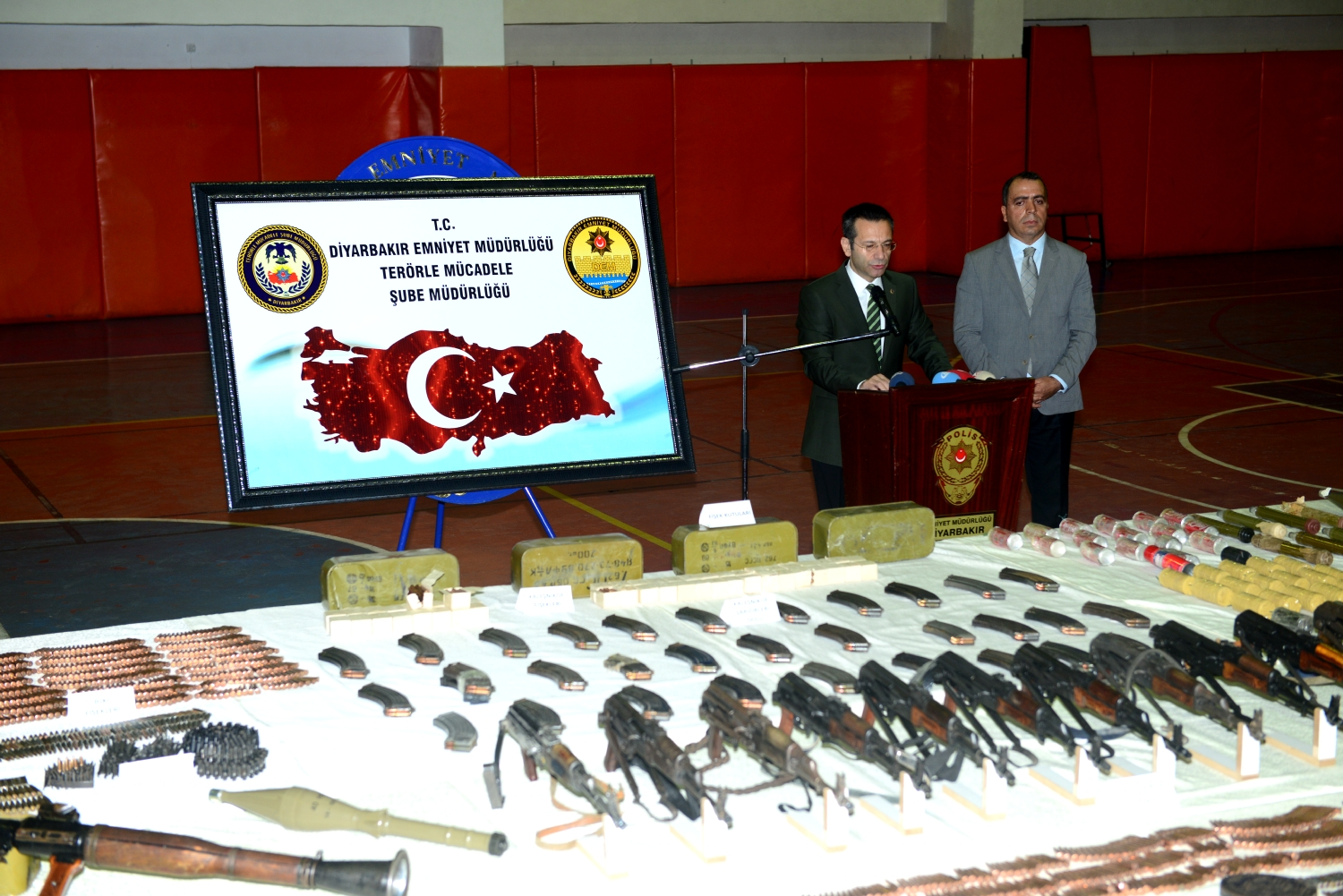 Original Turkish description: "Diyarbakır’da gerçekleştirilen bir operasyonda PKK’ya ait cephanelik bulundu. Cephanelik Sur İlçesindeki bir çay bahçesine yapılan baskında ahşap bir kulübe içerisinde ele geçirildi. Kulübede, 12 Kaleşnikof tüfek,35 içi fişek dolu Kaleşnikof şarjör, 4 bin 24 fişek, 2 roketatar ile 15 sevk motoru,7 anti tank roketatar mühimmatı, 8 anti personel roketatar mühimmatı, 3 el bombası, 38 el yapımı bomba, 57 av tüfeği fişeği, 890 BKC fişeği ve kıyafetler ele geçirildi."